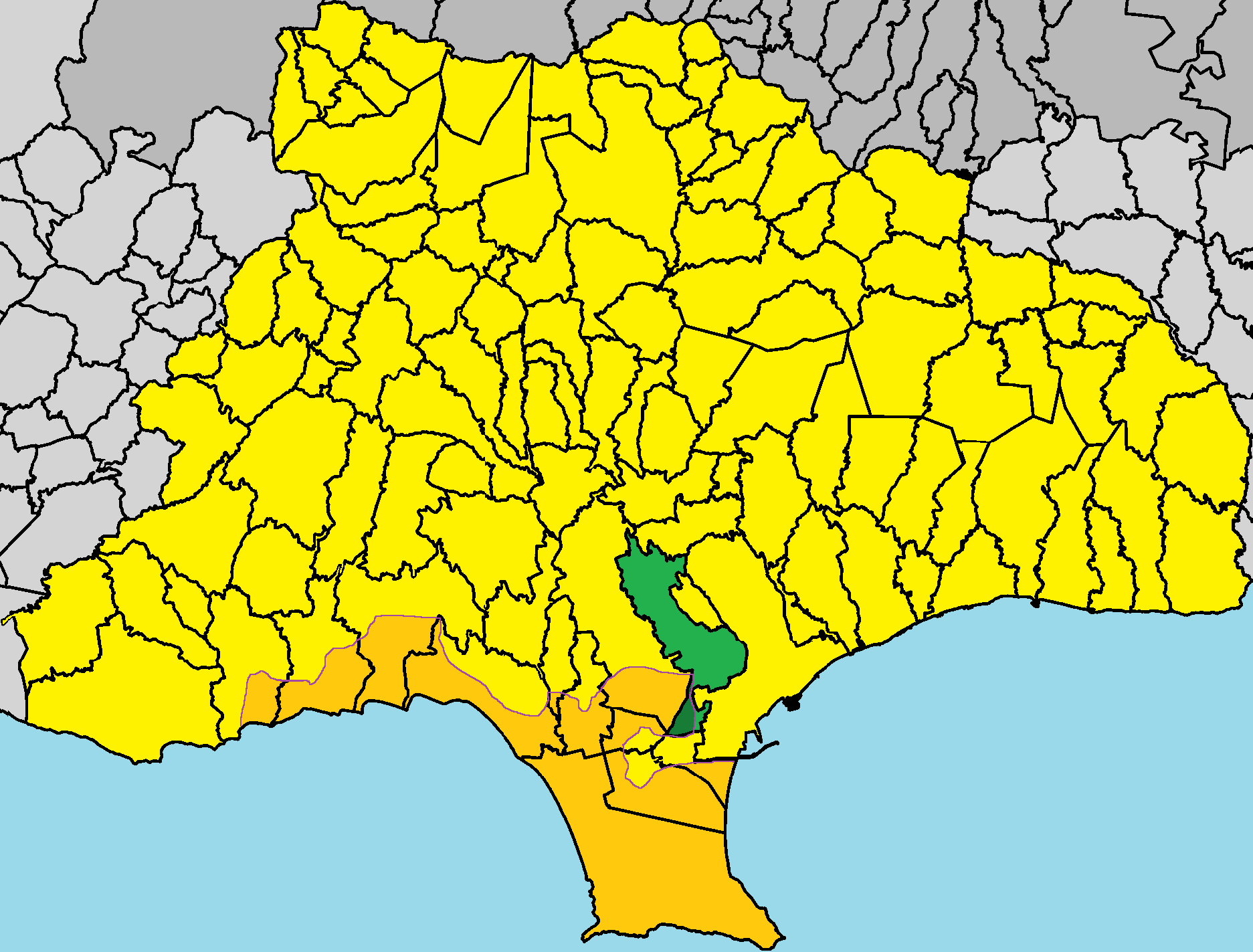 Kato Polemidia in Limassol District.